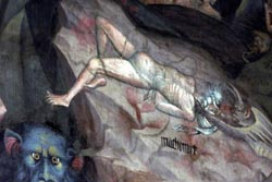 This picture is of an early Renaissance fresco in Bologna's Church of San Petronio, created by Giovanni da Modena and depicting Mohammed being tortured in Hell. In 2002, Islamic extremists plotted to blow up the church in order to destroy the image.